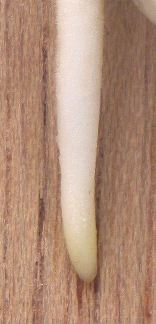 (nl: Tuinboon primaire wortel) Vicia faba primary root).